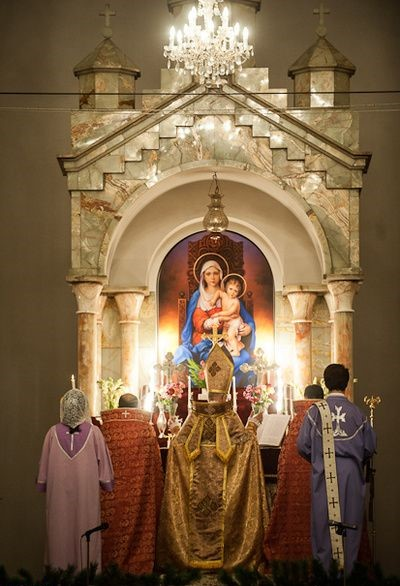 Sacerdotes armenios que dan honor a la Santísima Virgen María en la Catedral de San Sarkis, que es una iglesia apostólica armenia en Teherán,Irán.